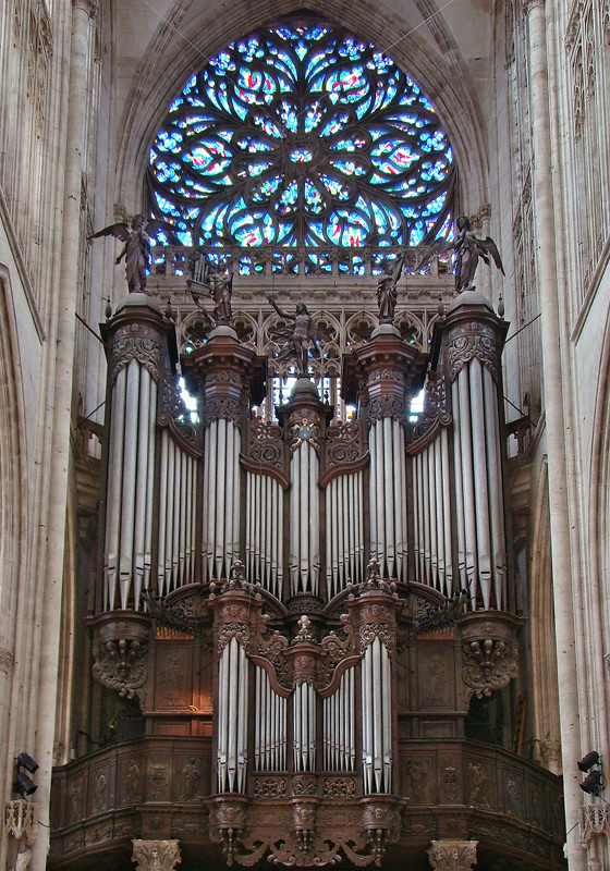 Church of Saint Ouen, Rouen, Seine-Maritime, Normandie, France. Cavaillé-Coll organ.